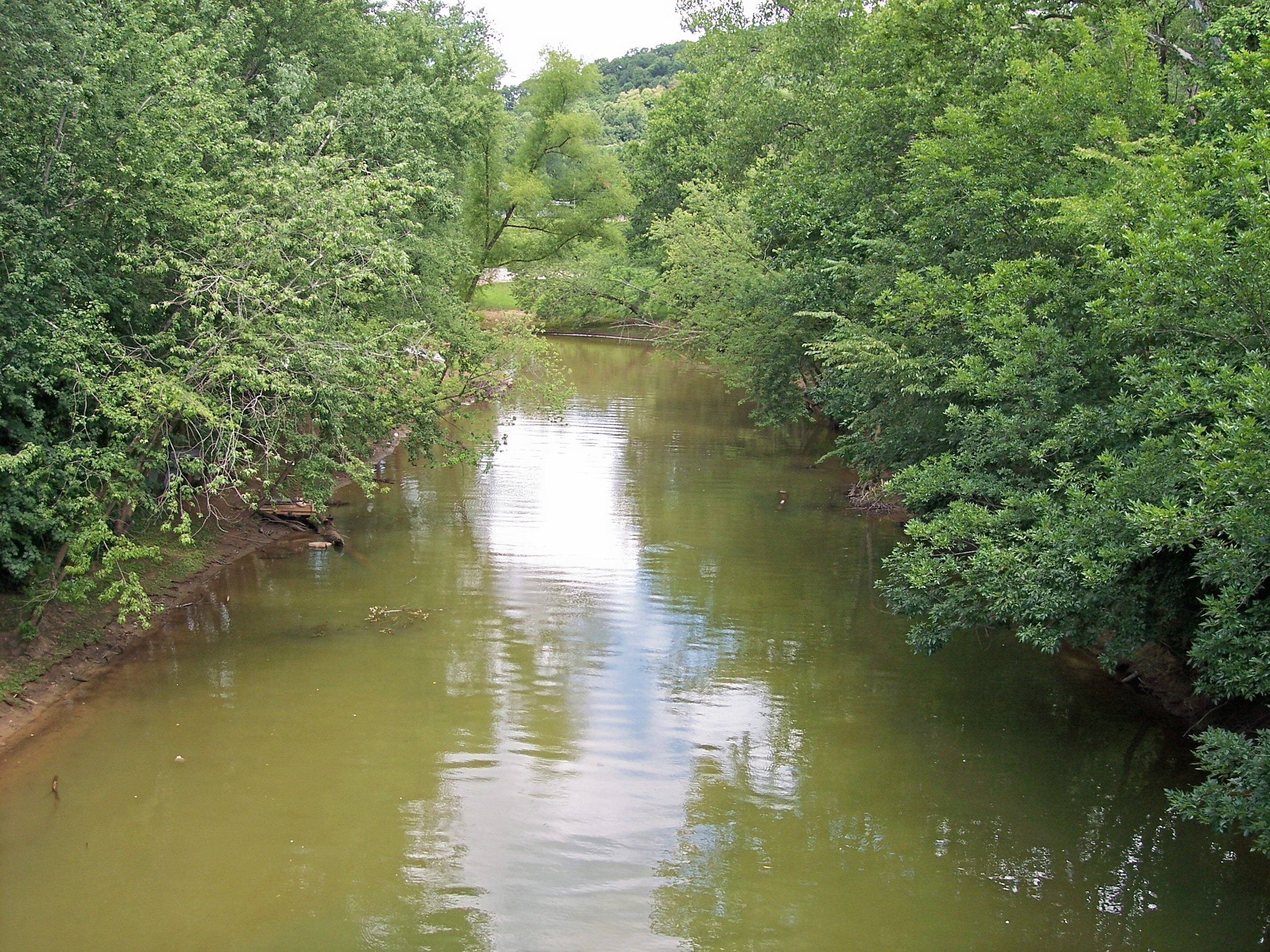 Symmes Creek near its mouth, as viewed upstream from a bridge on Ohio State Route 7 in Chesapeake, Ohio.